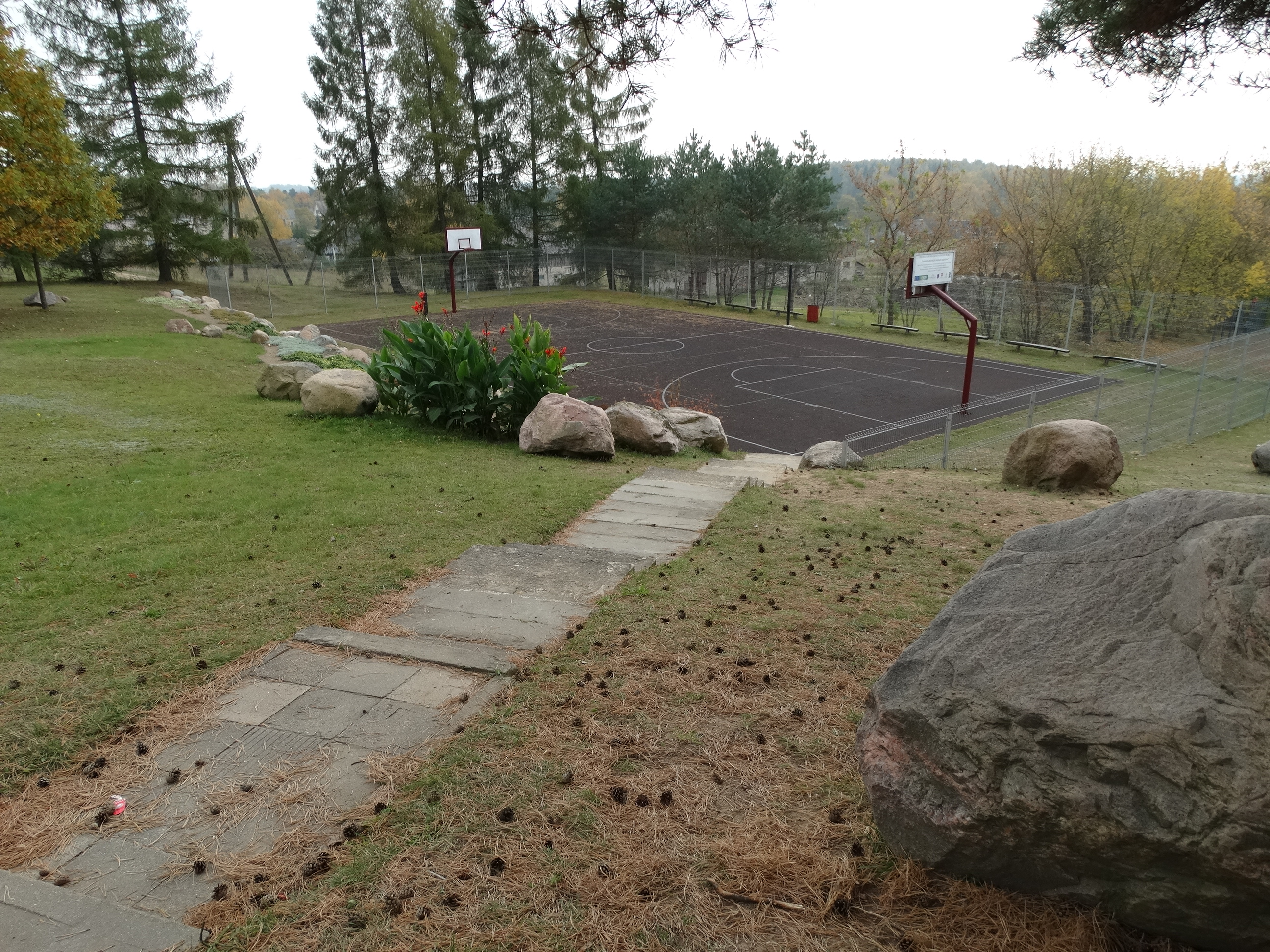 School, Pajevonys, Vilkaviškis District, Lithuania